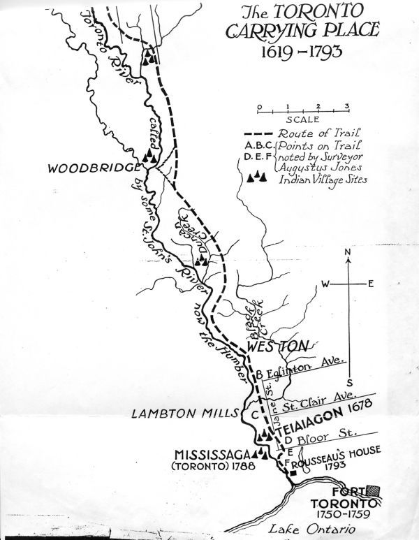 Map of the Lower Humber River and the Toronto Carrying Place trail, showing Native villages.